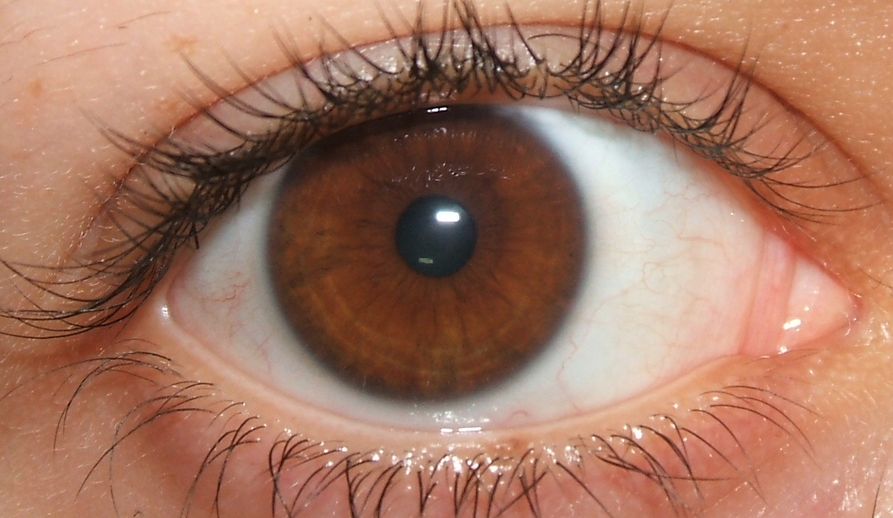 A photo of my iris. Uploading it so that I may add it to the 'Eye Color' Wikipedia page.